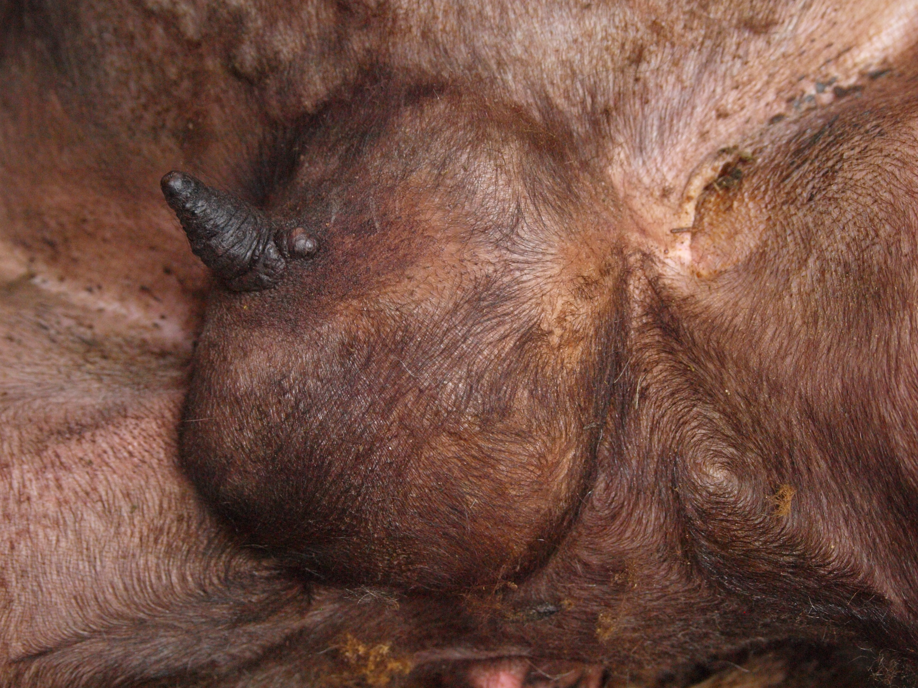 Udder of a of a Roux du Valais sheep (Walliser Landschaf) with only one teat after a healed mastitis. The second teat was lost due to the mastitis.